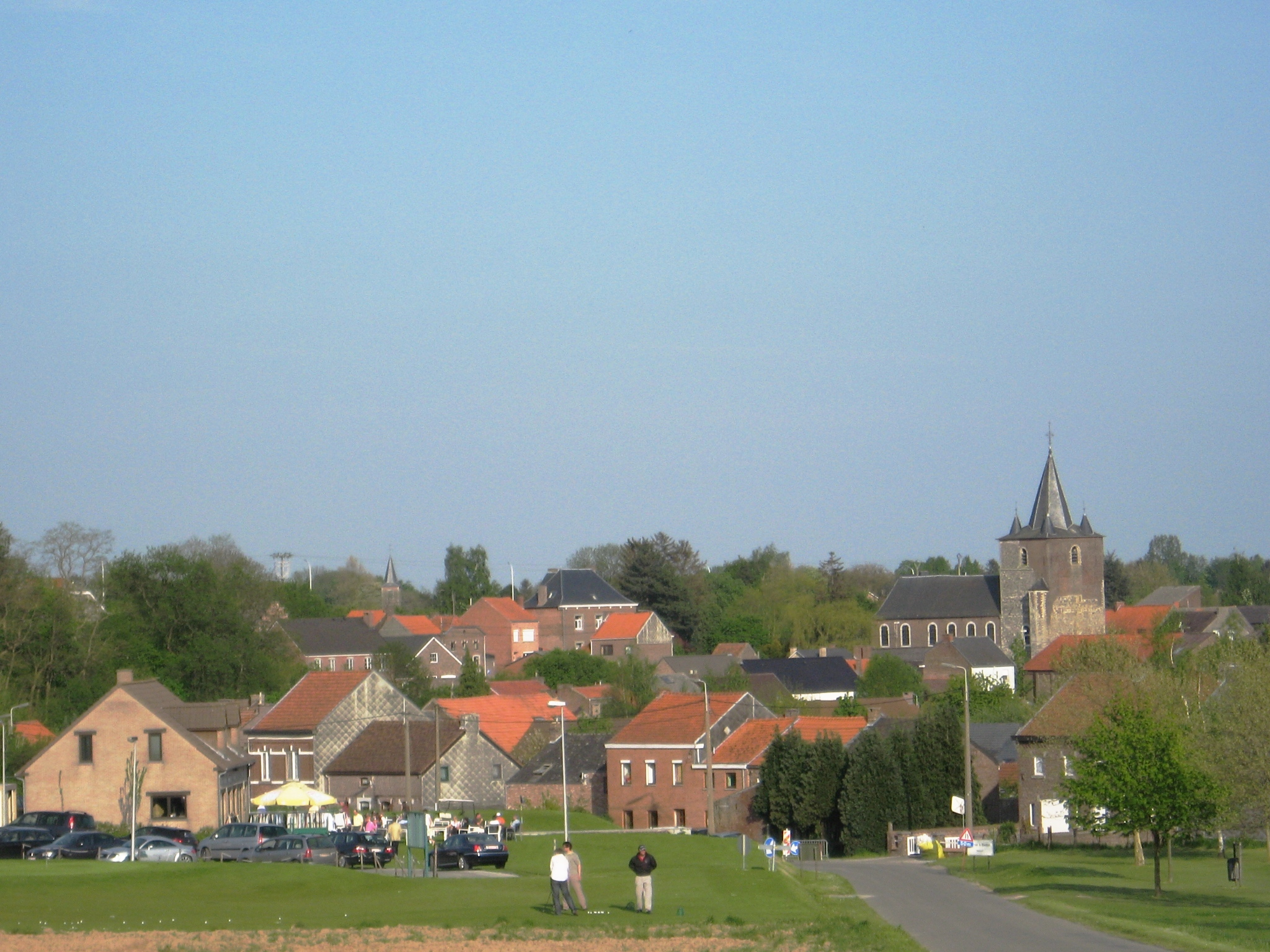 View on Avernas-le-Bauduin, Hannut, Liège, Belgium